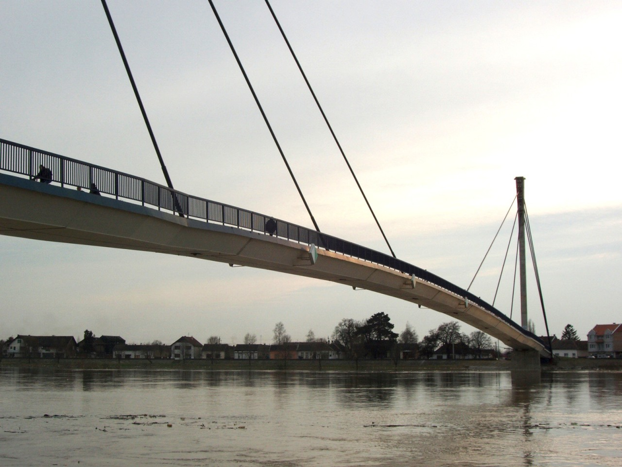 The bridge of St Ireney above the Sava, at Sremska Mitrovica, Serbia, Vojvodina/Le pont Saint-Irénée sur la Save (Danube) à Sremska Mitrovica, Voïvodine, Serbie